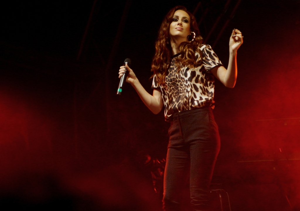 Mutya Keisha Siobhan performing at Manchester Pride on Sunday 25th August 2013